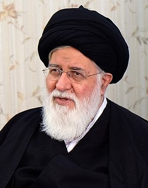 FNA interview with Ahmad Alamolhoda. see full gallery